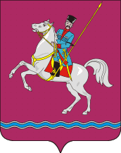 Leningradsky rayon (Krasnodar krai), coat of arms